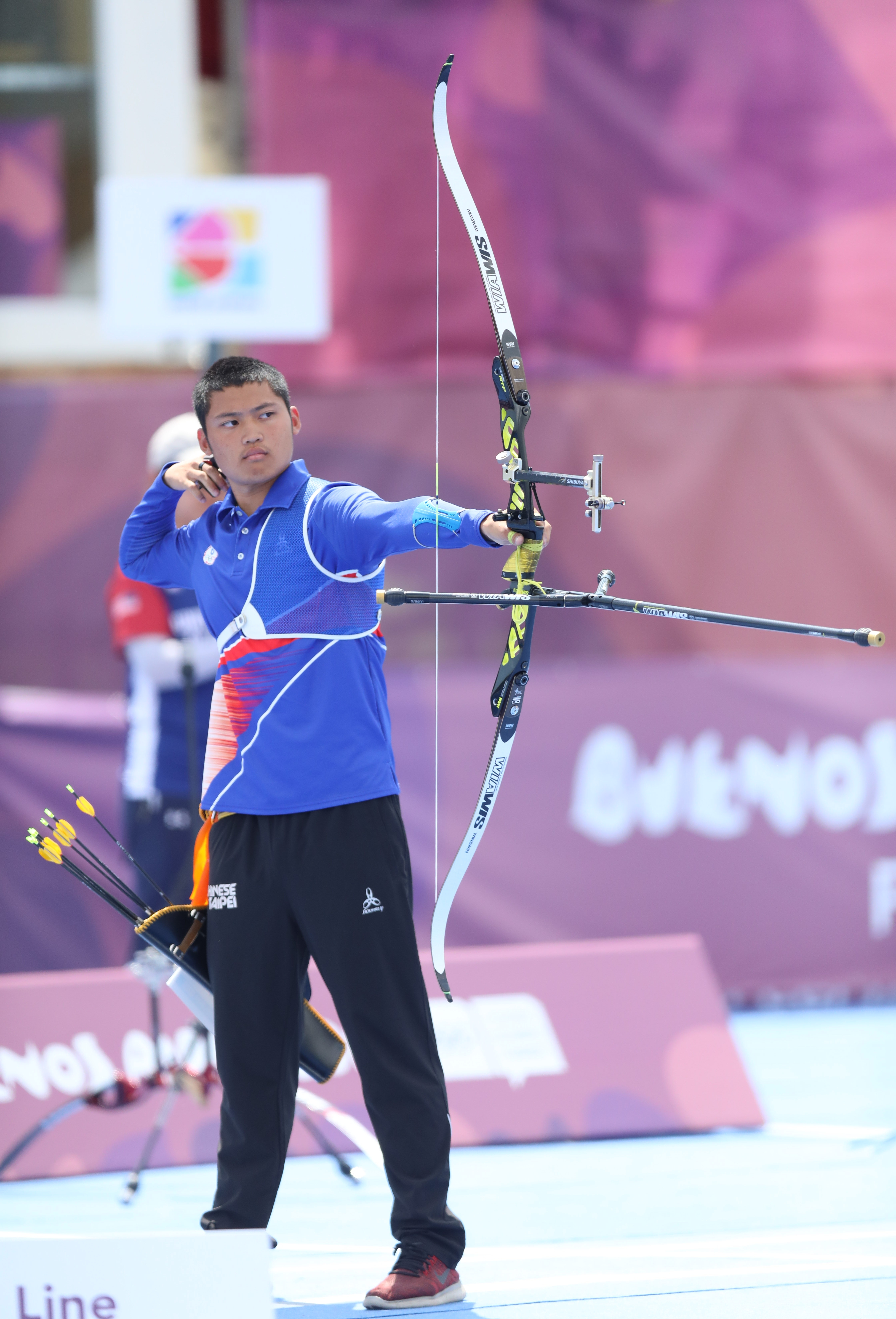 2nd round section 4 match of the boys' archery at the 2018 Summer Youth Olympics in Buenos Aires on 12 October 2018: USA vs. Chinese Taipei.